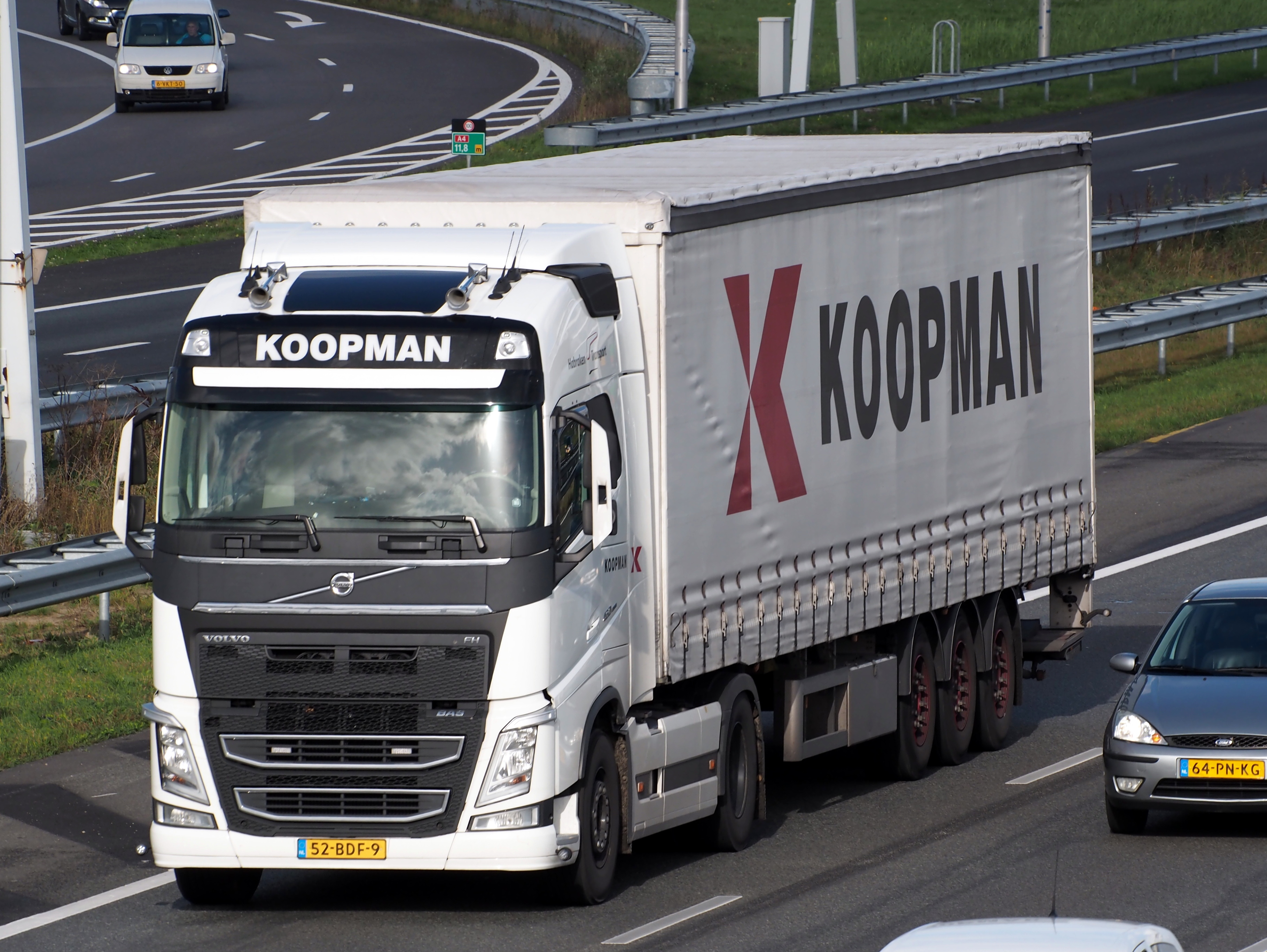 Photographed on the A4 near Hoofddorp, The Netherlands.